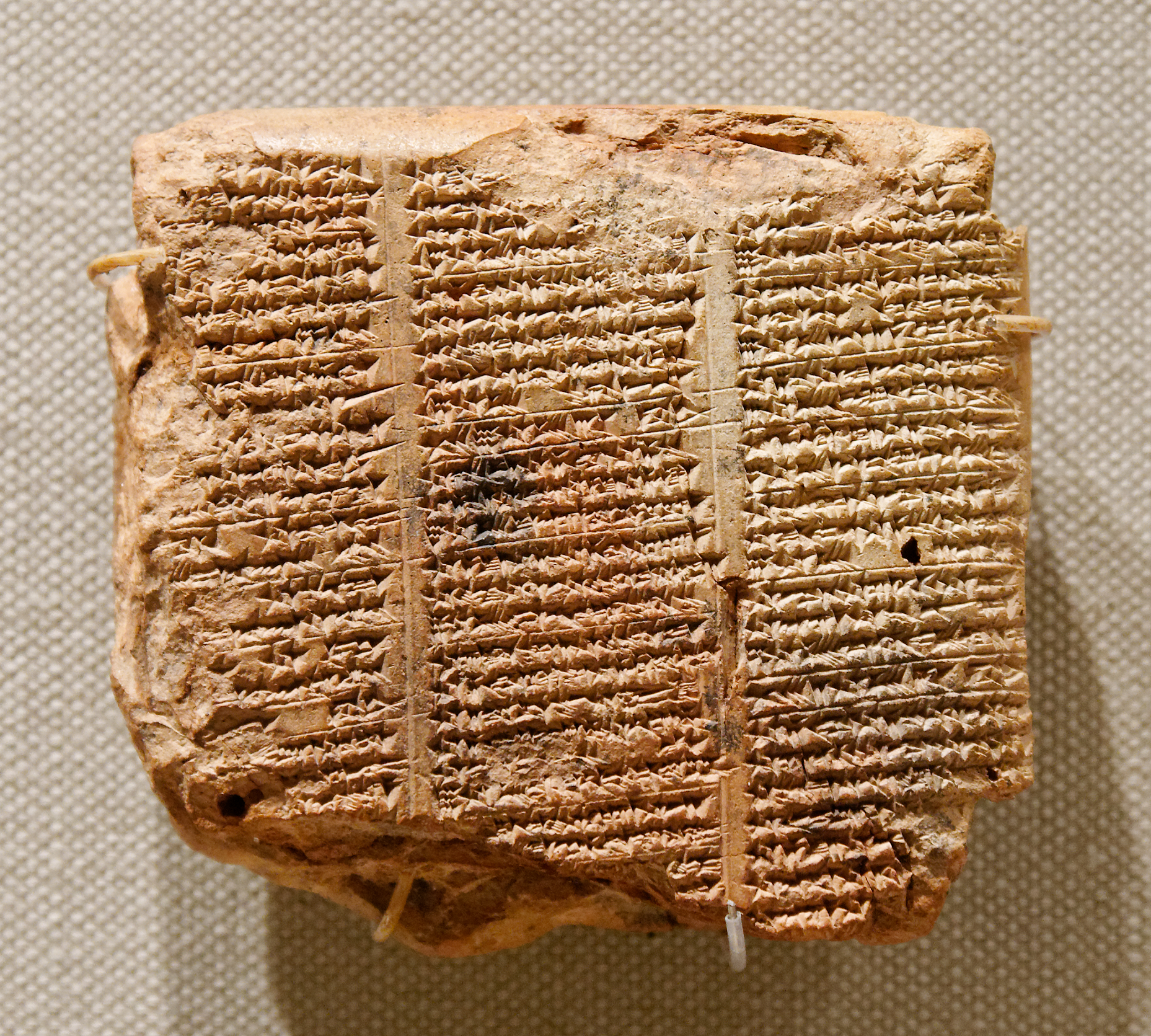 Cuneiform tablet with a list of magical stones to use as amulets.